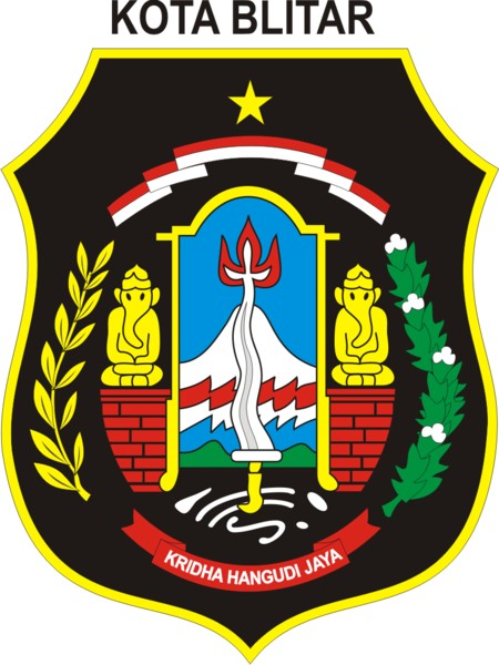 Lambang (Coat of Arms) of Kota (City) of Blitar, provinsi Jawa Timur (East Java Province), Indonesia